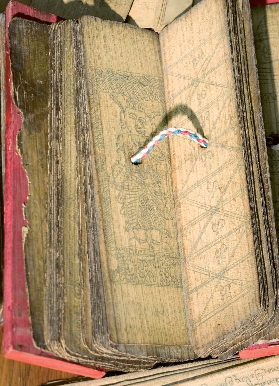 Image of opposing leaves in Sinhala palm-leaf medical manuscripts (ca 1700) also known as Medical charms (MS S6). The brittle leaves are tied together with a single cord. Drawing on one leaf might depict a medical professional in traditional dress. The opposing leaf is of a linear pattern with repeating doodles. The red lacquered board covers are barely visible. Sinhalese physicians deployed these manuscripts as signs of medical learning and prestige. Medical charms were employed for health and wellbeing bridging the line between magic and early medicine.